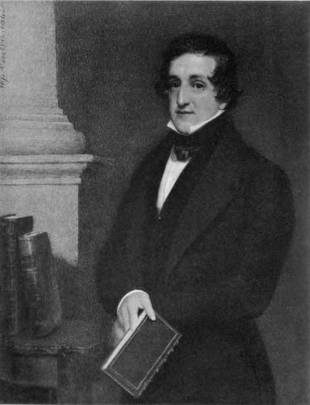 John Cam Hobhouse (d. 1869) - frontispiece of 19th century edition of "Recollections of a Long Life"